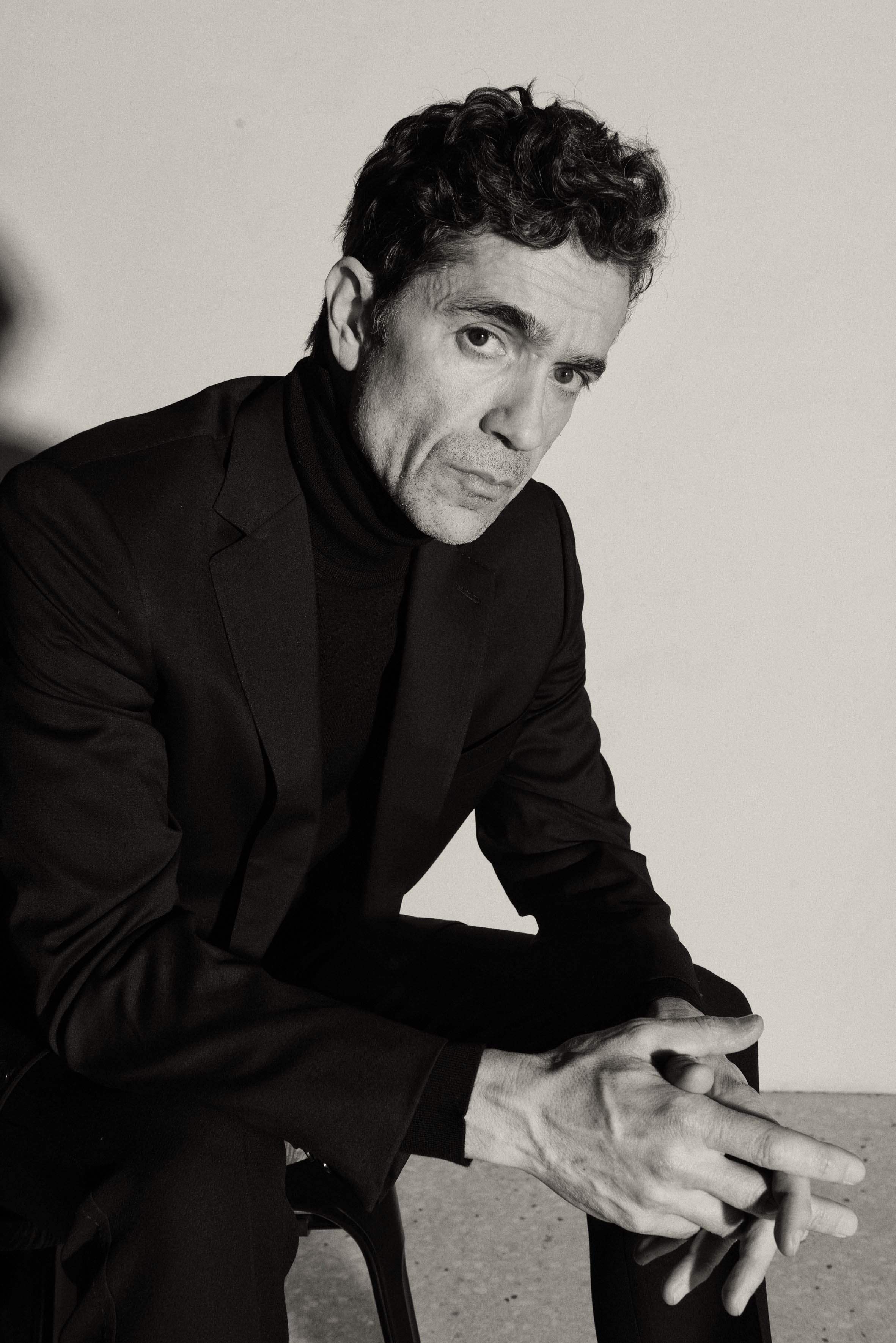 Romeo Castellucci - ph. Slava Filippov